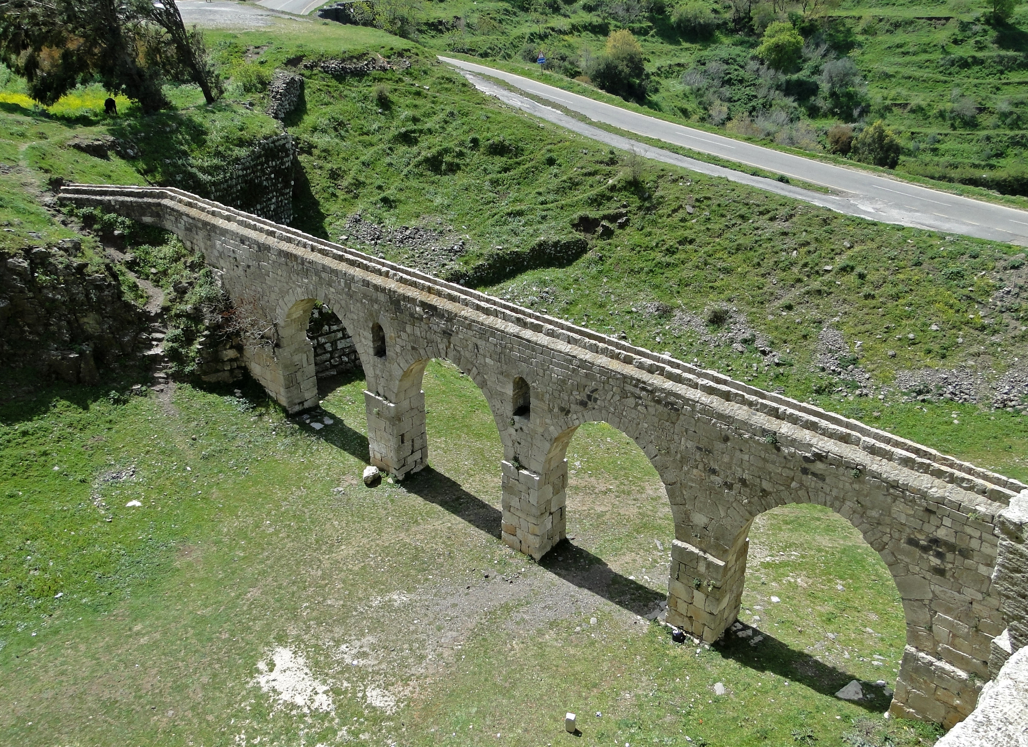 Aqueduct of Krak des Chevaliers, Syria